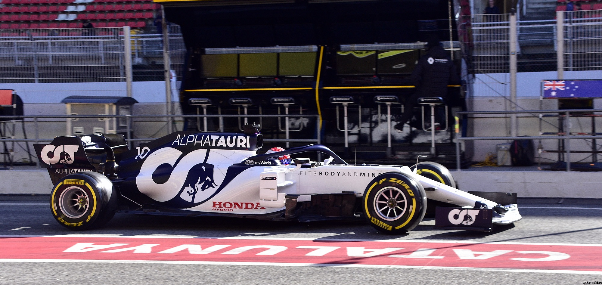 Formula 1 Pre-Season Testing 2020 / Circuit de Barcelona / AlphaTauri AT01 / Pierre Gasly / FRA / Scuderia AlphaTauri Honda